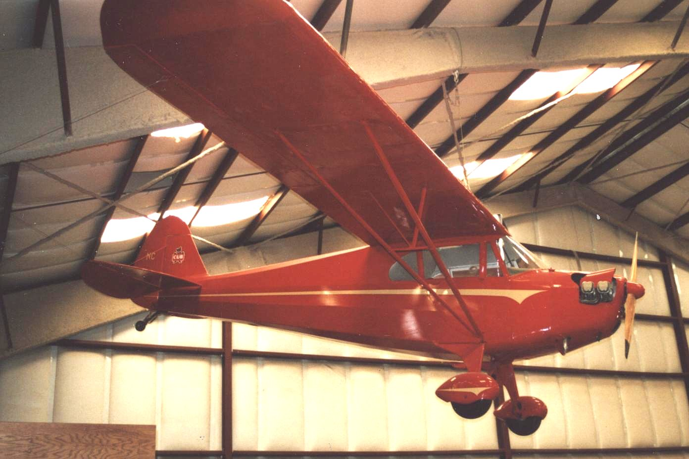 Piper J-4A Cub Coupe exhibited at the Pima Air Museum Tucson, Arizona